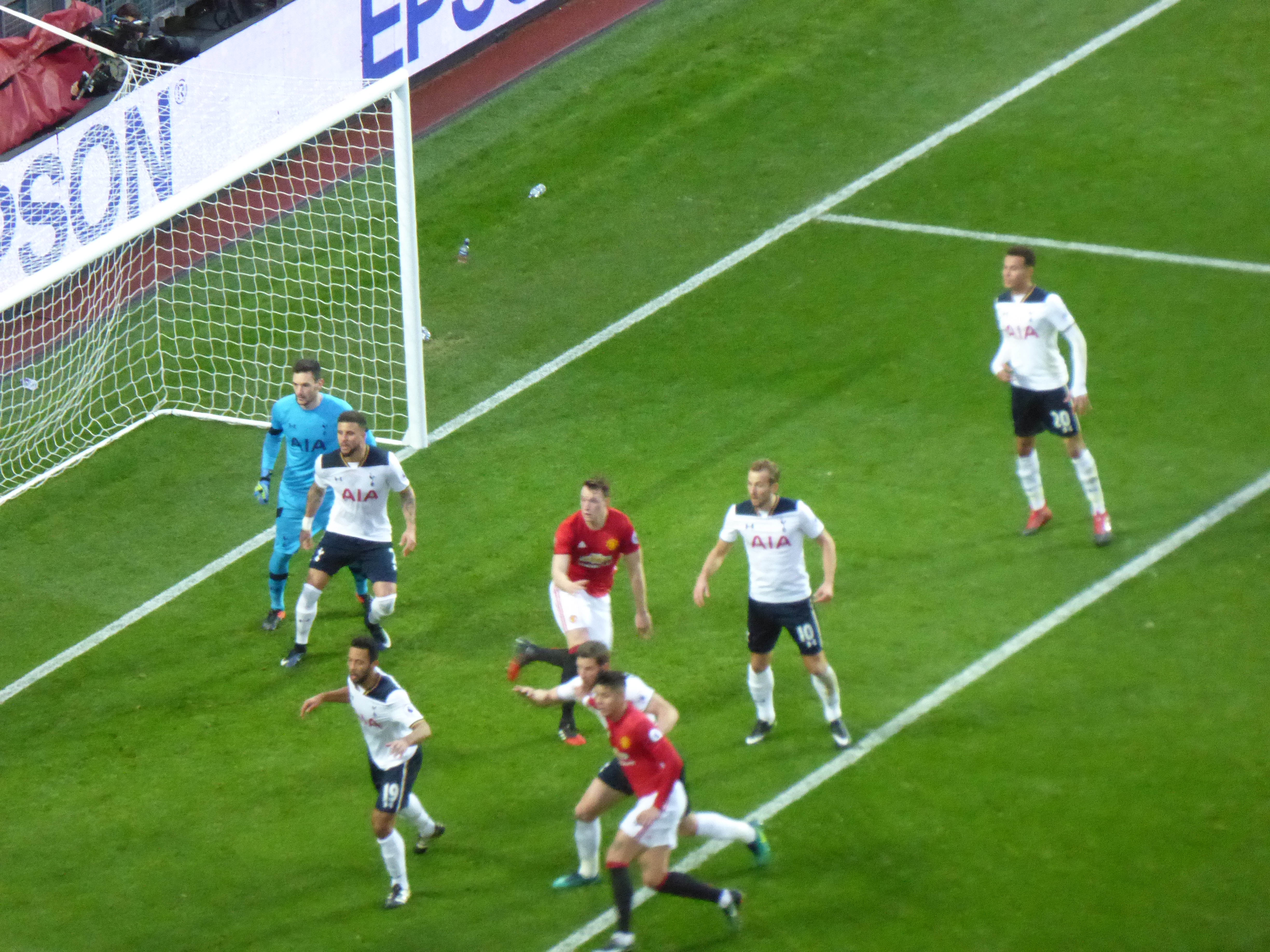 Manchester United v Tottenham Hotspur (1-0), Premier League, Old Trafford, Manchester, Greater Manchester, England, December 2016